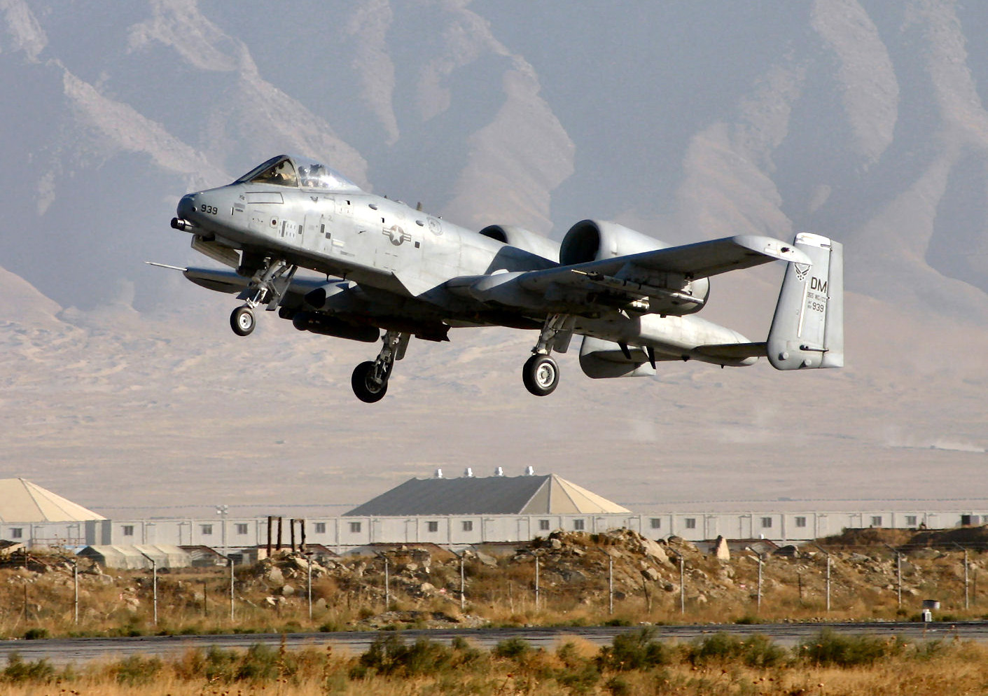 BAGRAM AIR BASE, Afghanistan -- An A-10 Thunderbolt II takes off on a combat mission. Since Sept. 15, A-10s here have flown more than 1,700 sorties in support of Operation Enduring Freedom. The A-10 was the first Air Force aircraft specially designed for close air support of ground forces.